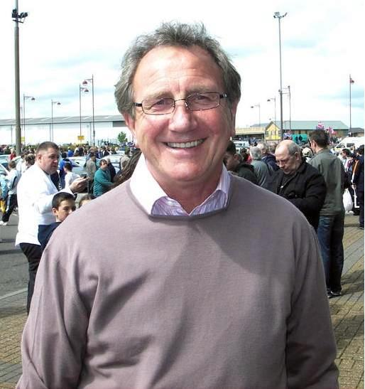 Roy McFarland, former english footballer.